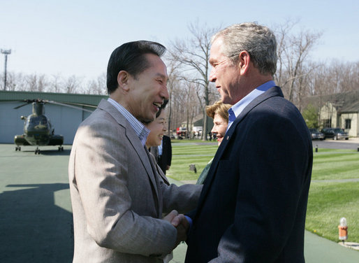 President George W. Bush and Laura Bush welcome South Korean President Lee Myung-bak and his wife, Kim Yoon-ok to the Presidential retreat at Camp David, Maryland.